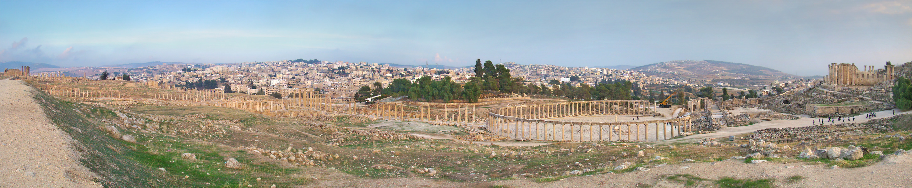 Jerash, Jordan.